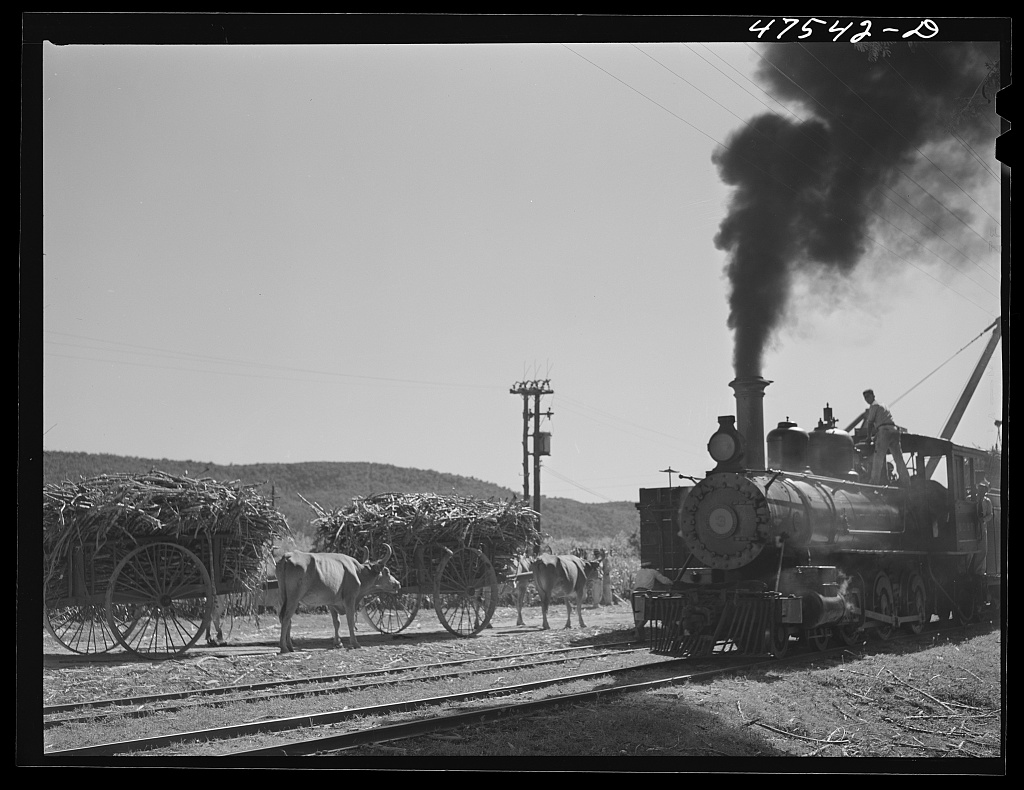 Guanica, Puerto Rico (vicinity). Freight train used in hauling cane to the sugar mills from loading stations